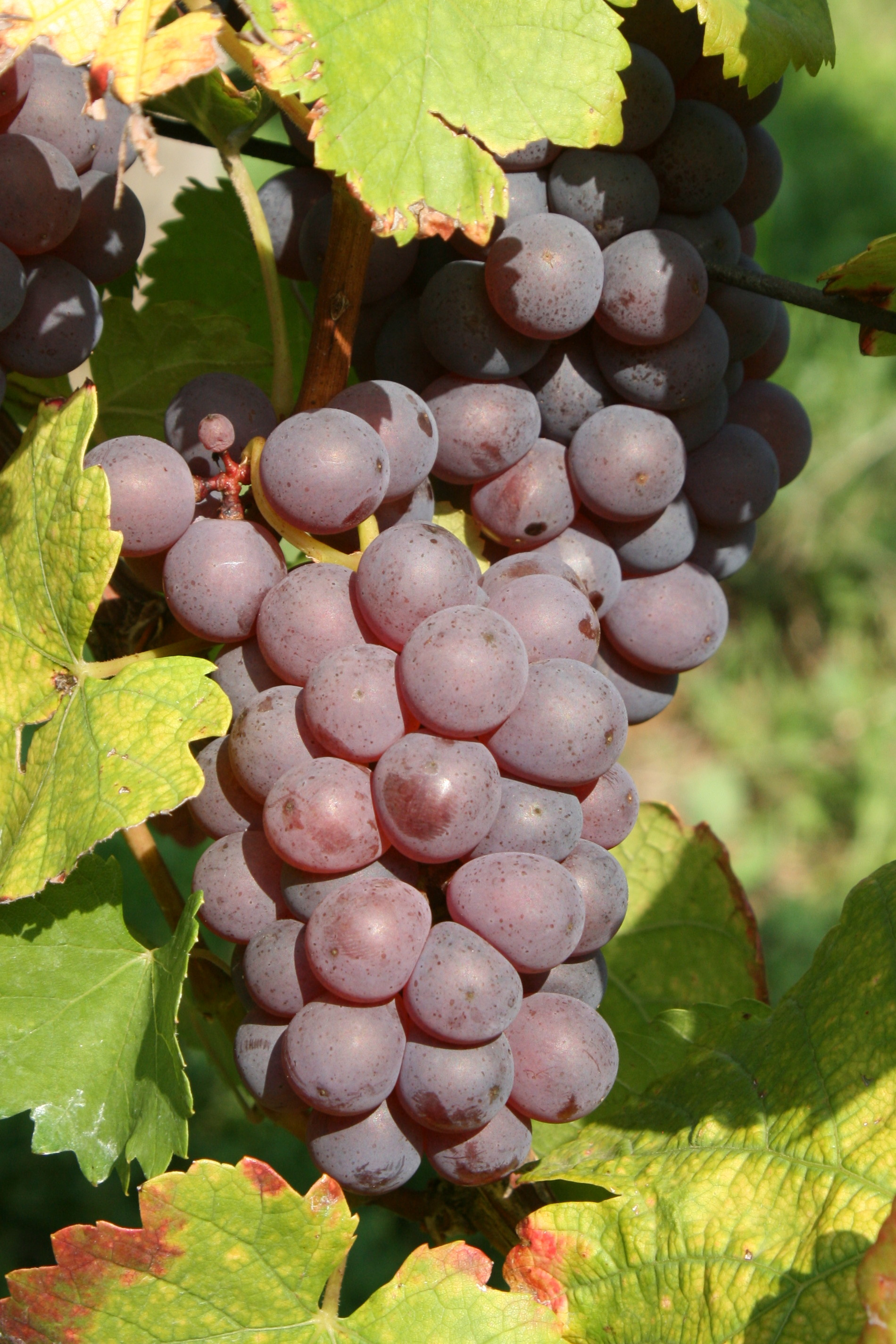 Grapes and leaves of the grape variety Schwarzer Silvaner, photographed at the viticulture trail on the Schemelsberg hill in Weinsberg